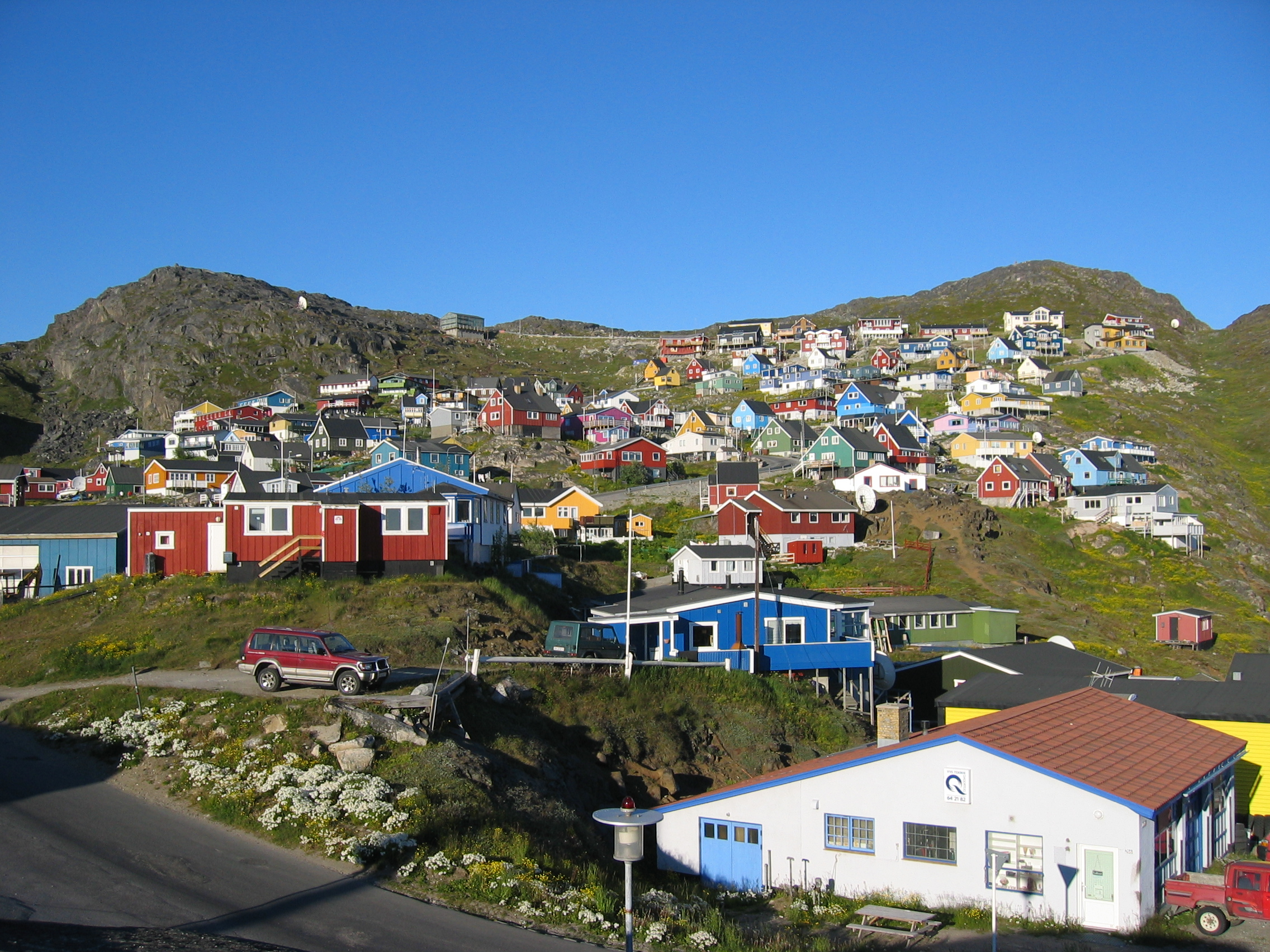 View on the town of Qaqortoq (Greenland)